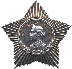 Order of Suvorov 3rd class